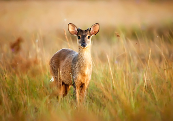 "Veado-catingueiro (Mazama gouazoubira) fotografado em Guarapari, Espírito Santo - Sudeste do Brasil. Bioma Mata Atlântica. Registro feito em 2007. ENGLISH: Gray brocket photographed in Guarapari, Espírito Santo - Southeast of Brazil. Atlantic Forest Biome. Picture made in 2007."